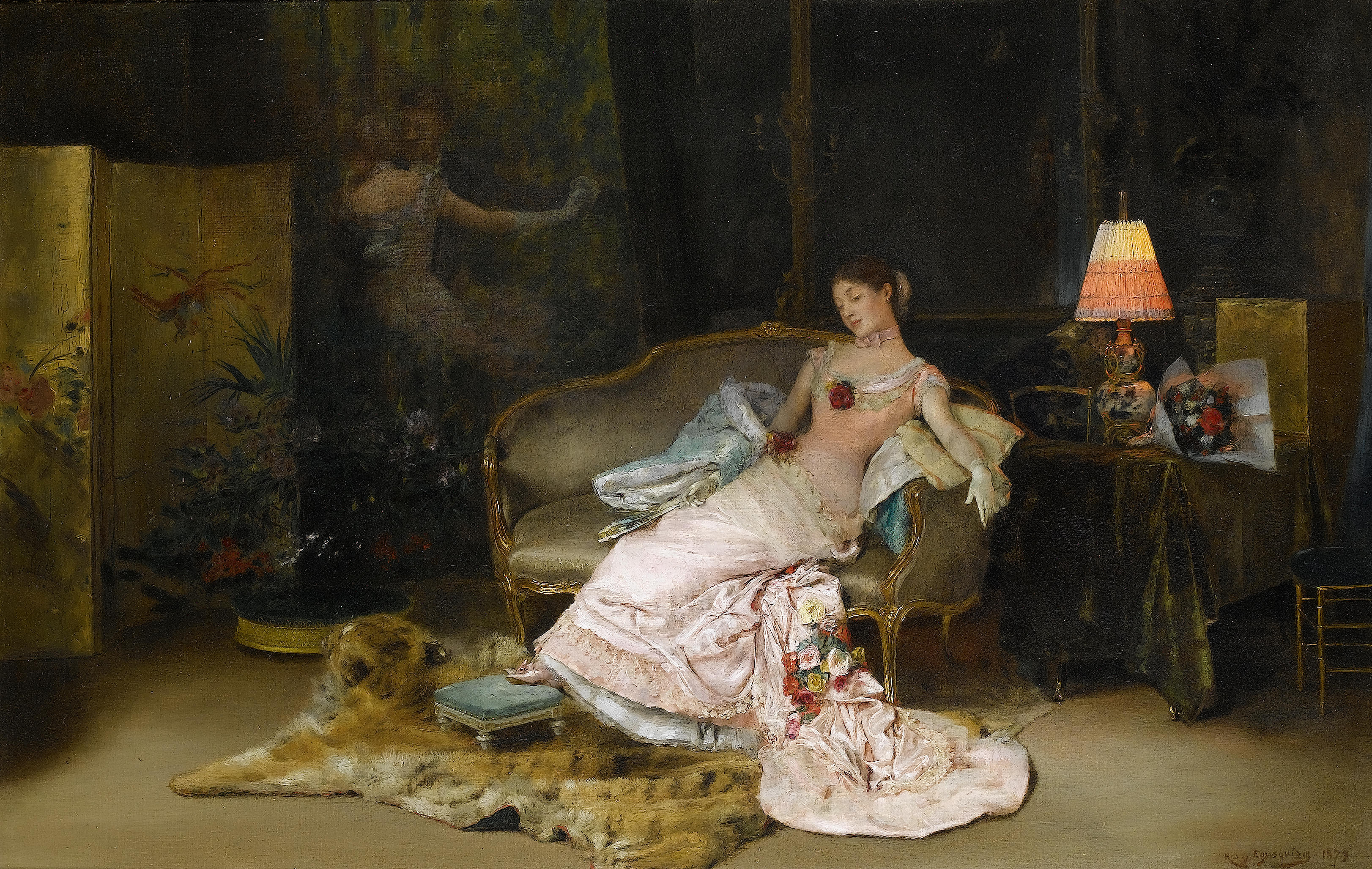 A reverie during the ball. Signed and dated Rog Egusquiza 1879. Oil on canvas, 55 x 85 cm